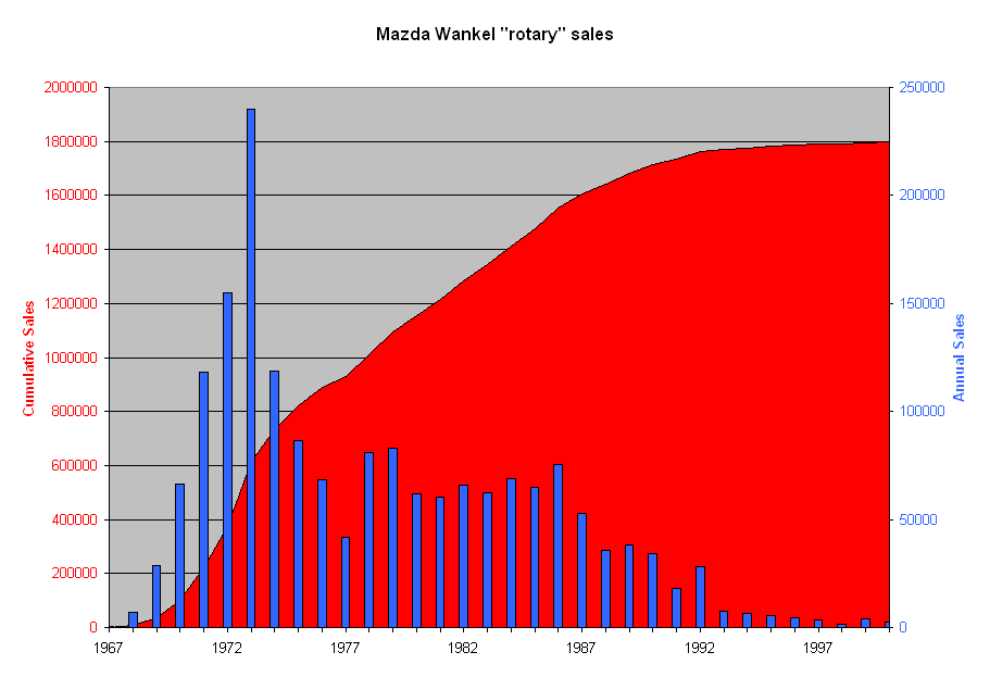 Annual and cumulative sales of Wankel engines by Toyo Kogyo and Mazda through 2000. Public data from was used to assemble this self-created image. Stephen Foskett This chart is hopeless outdated (a gap of 11 years!), shown not the quantity of produced RX-8 (Apr-Dec 2003 60100 RX8 are produced) and lack industry engines. This chart shown only the quantiy of produced Toyo Kogyo and Mazda Wankel cars until 2000.